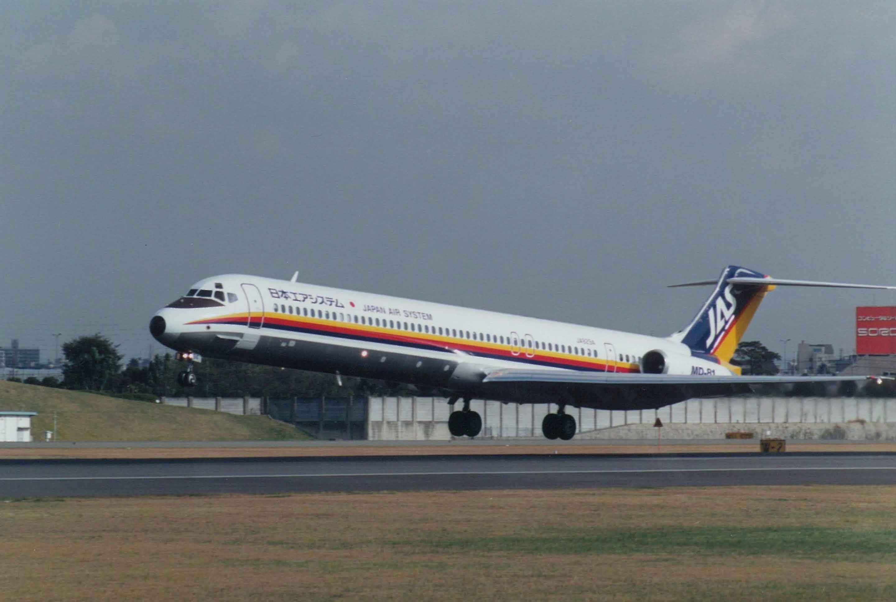 It is JAS which it photographed in Itami, Osaka Airport.